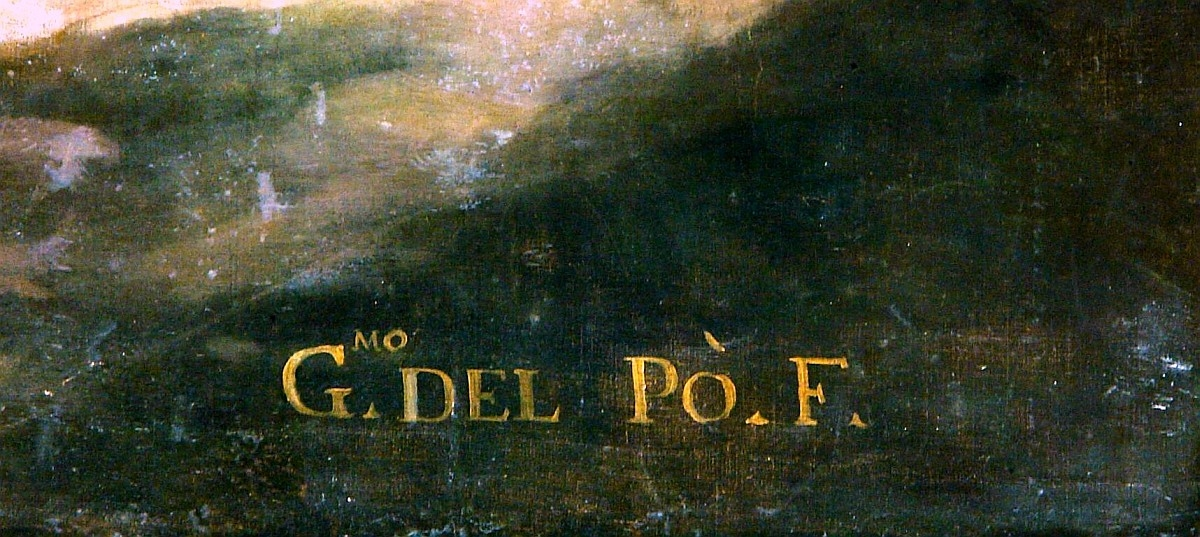 Signature of ceiling Painting by Giacomo de Po in the Obere Belvedere (Vienna)